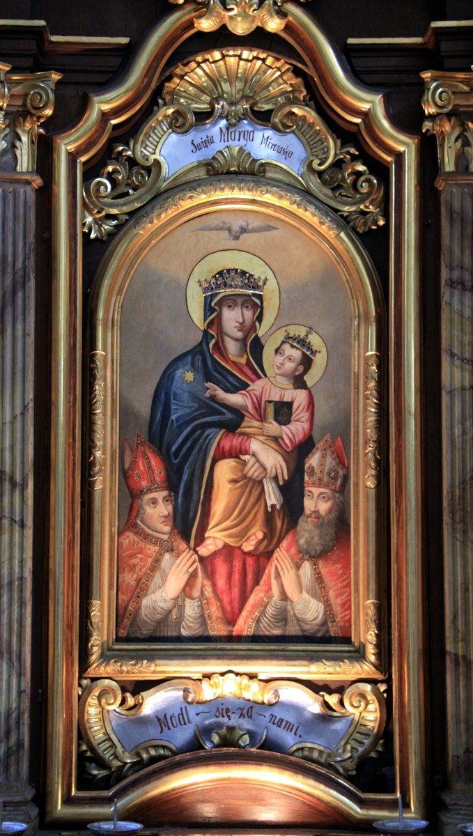 Painting of Our Lady of Mirów in Sanctuary in Pińczów